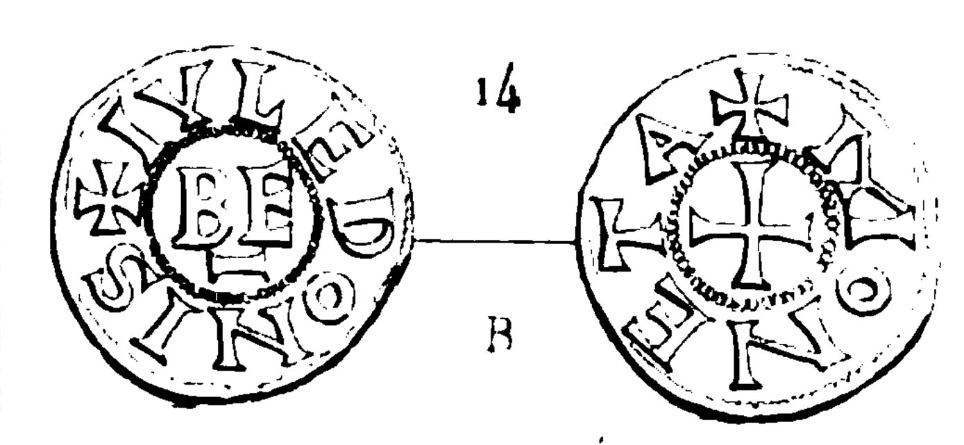 Coin of Renaud II of Burgundy